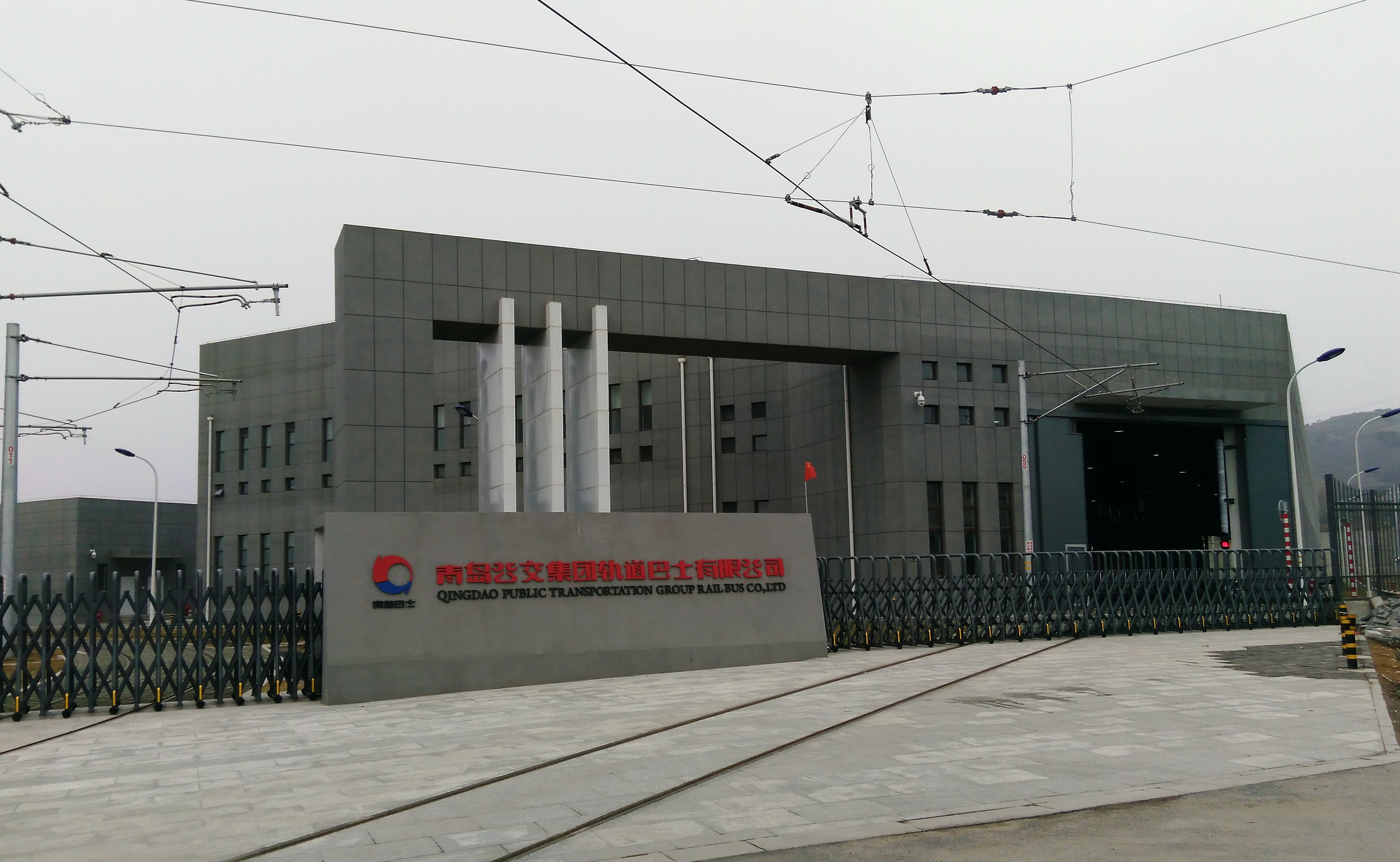 Gate of Qingdao Public Transport Group Rail Bus Co., Ltd